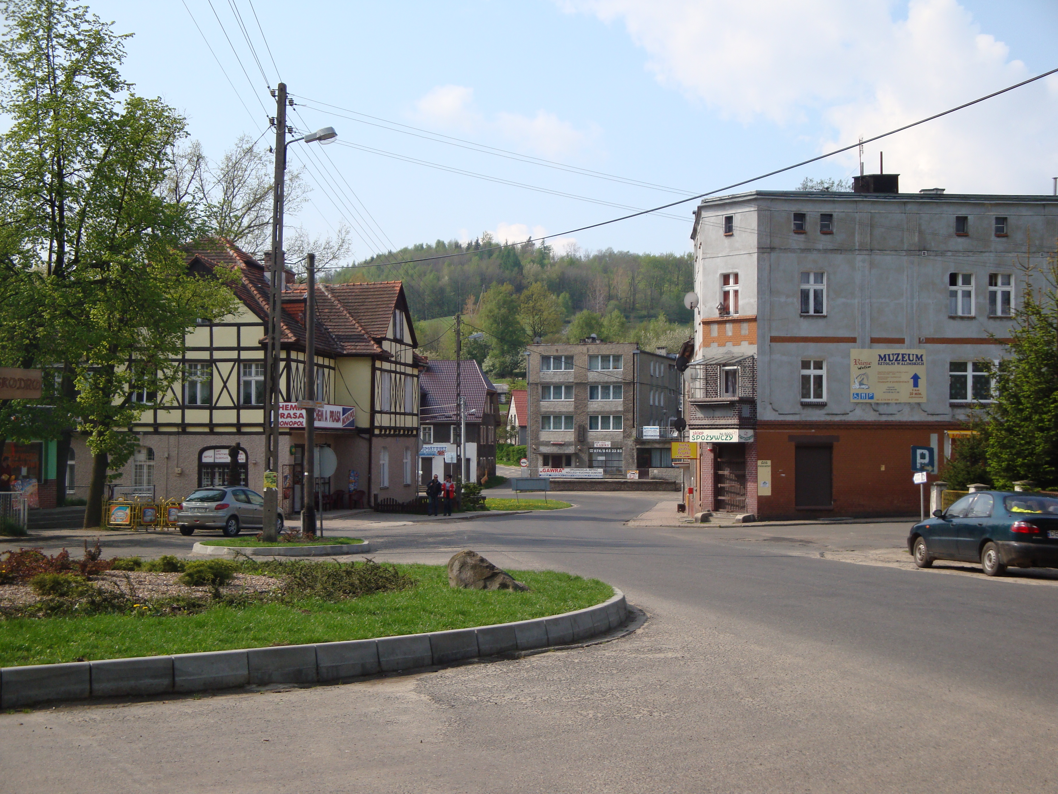 Center of the Village - Zagorze Slaskie (Poland)